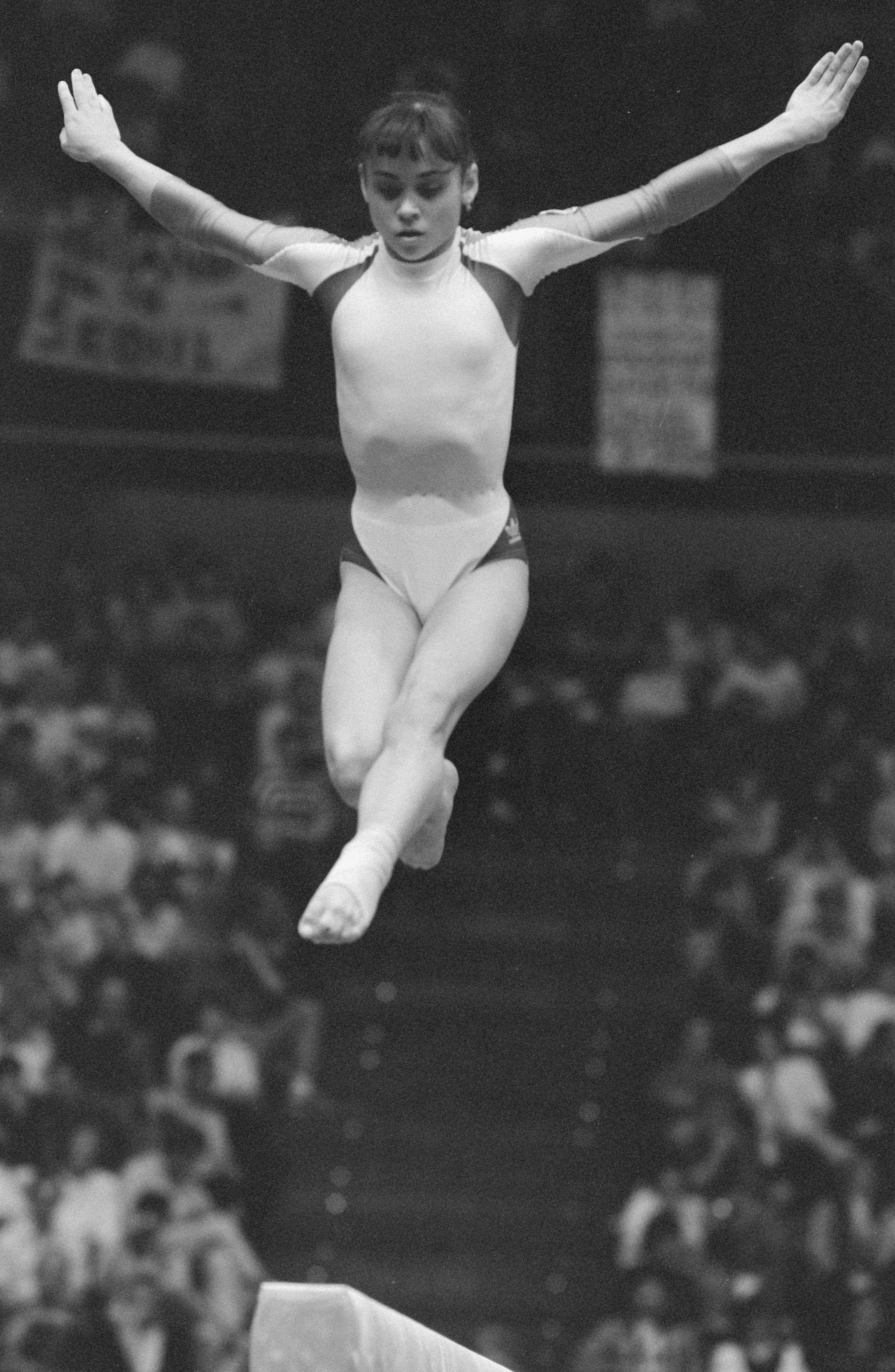 Aurelia Dobre at the 1987 World Cup